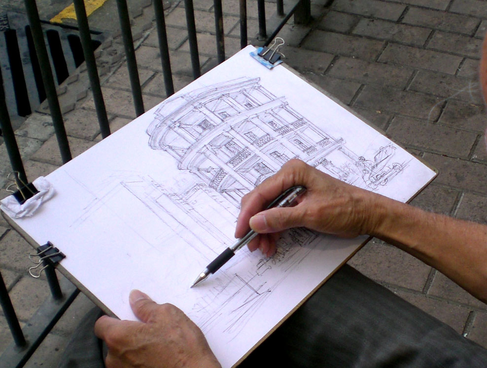 雷生春街頭寫生